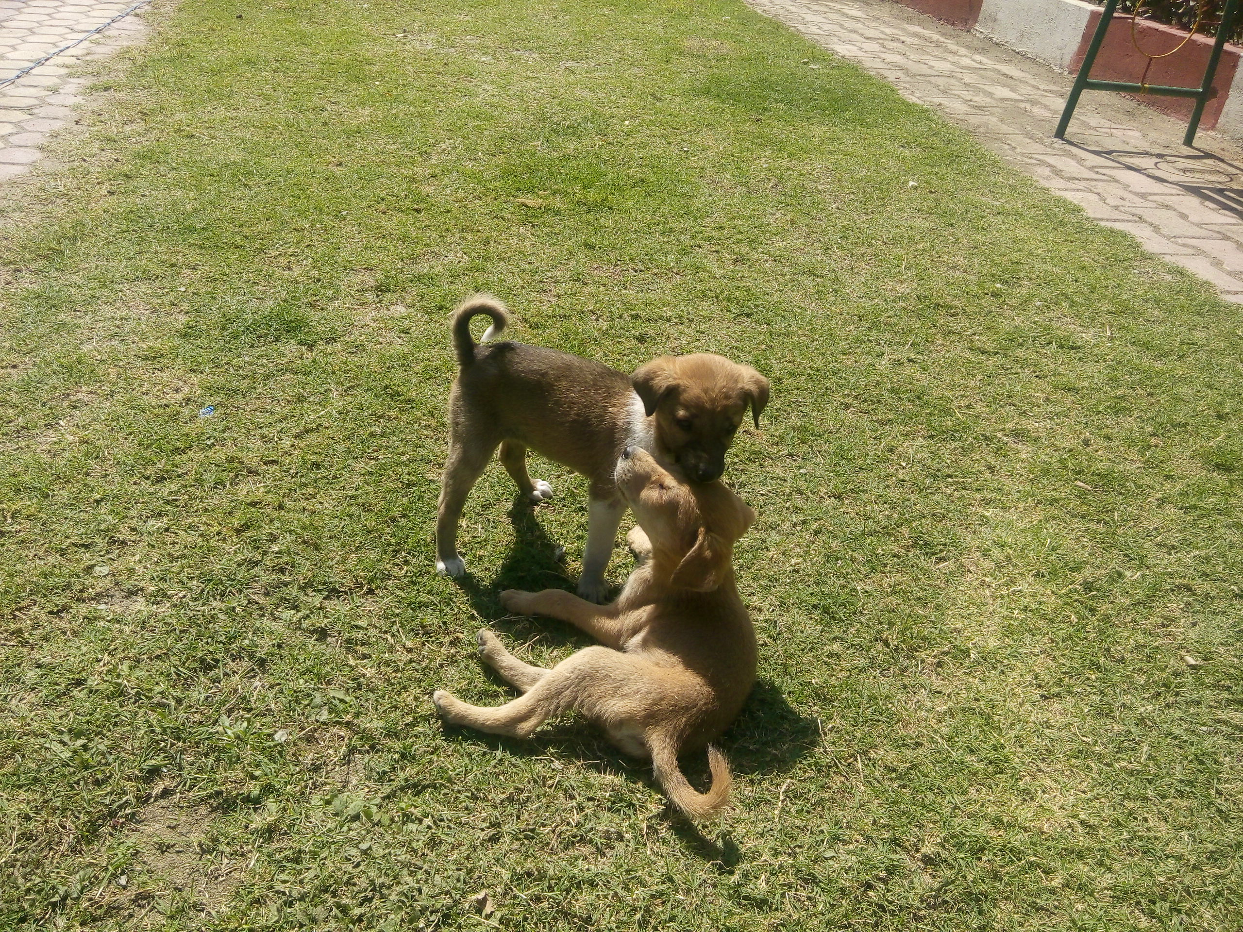 Puppies loving